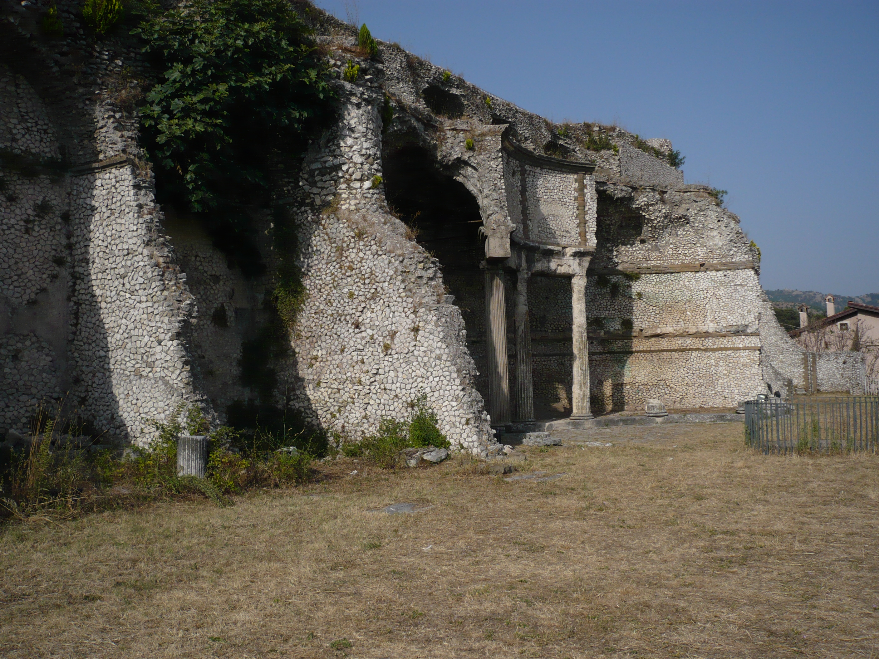 Ruins of the Sanctuary of Fortuna Primigenia, Palestrina